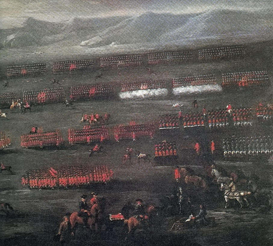 The Battle of Sheriffmuir